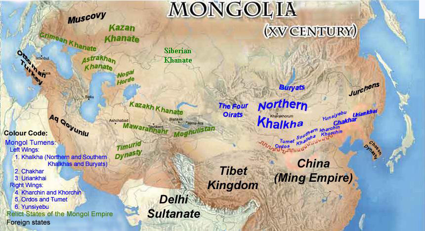 Mongolian domains and relict states of the Mongol Empire